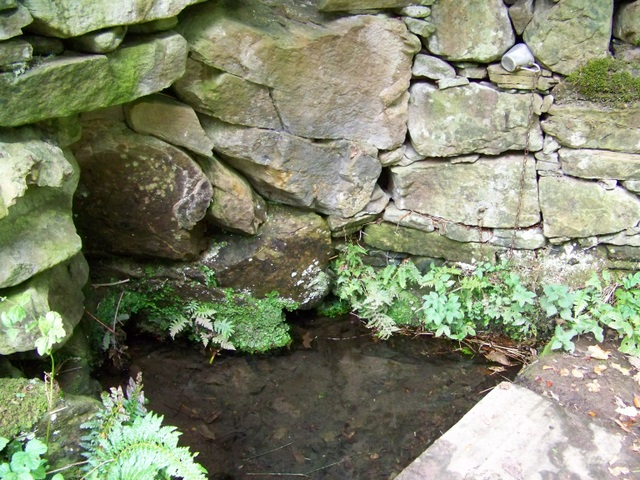 St Fergus Well, Glamis St Fergus is said to have been a Pict by birth and is sometimes known as St Fergus the Pict. Fergus is said to have died at Glamis where there is a cave and this well bears his name.